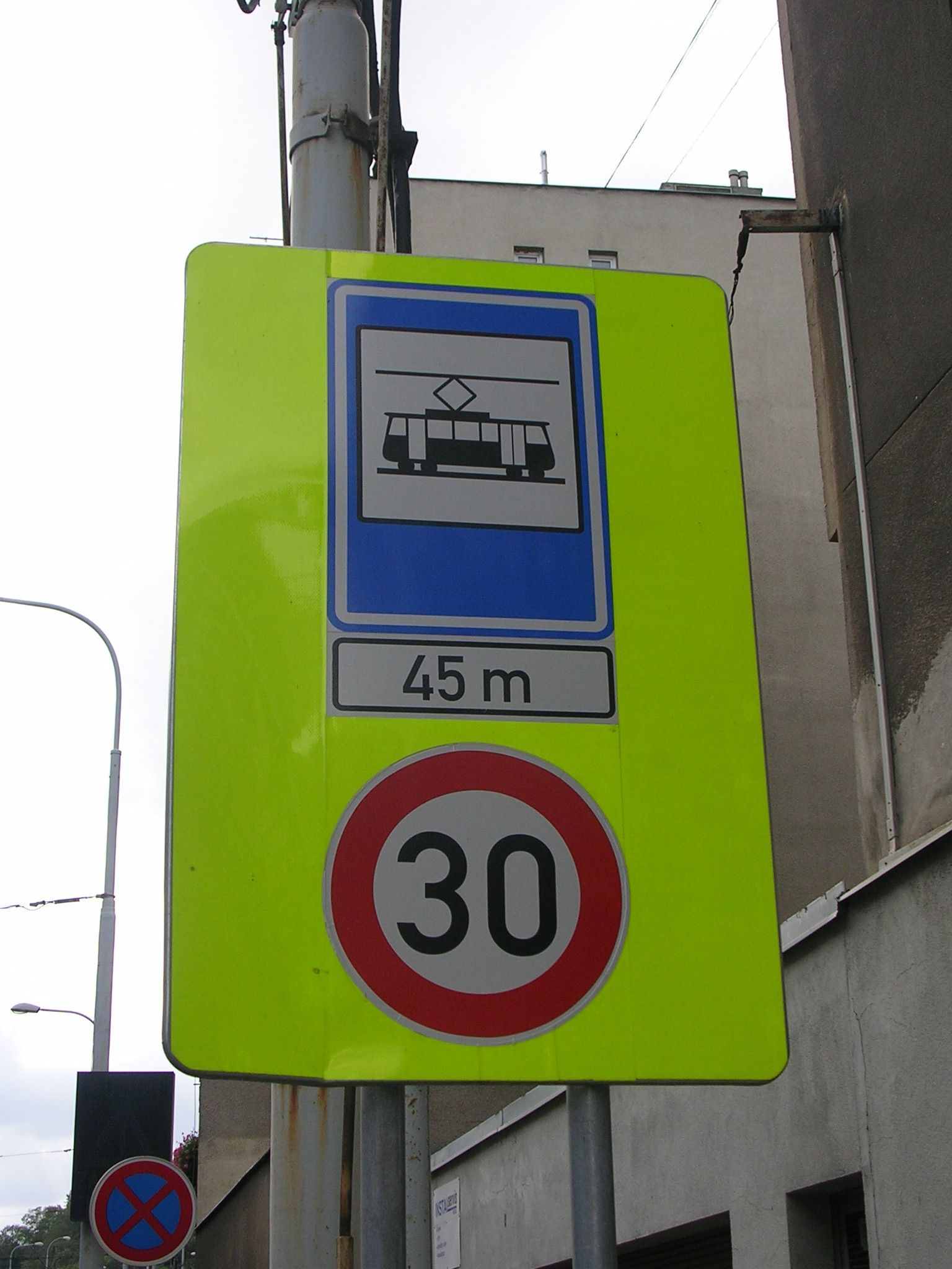 Tram stop Laurová, Prague-Smíchov.